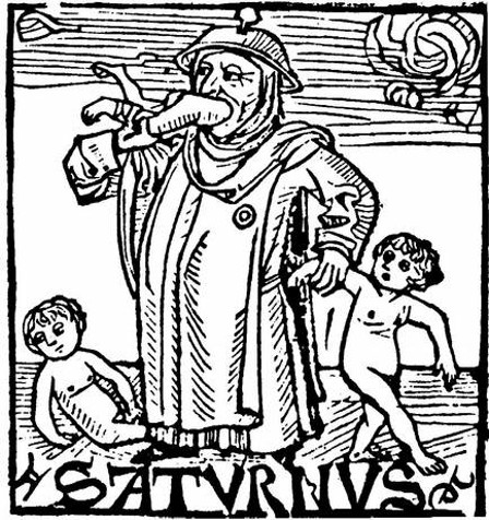 Woodcut from a Almanach of the German printer Peter Wagner, depicting Saturn eating his children. Since Saturn is painted as jew, the pictures references to the antisemitic canard of blood libel.